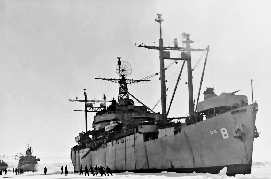 The U.S. Navy command ship USS Mount Olympus (AGC-8) moored on the ice while supporting Operation Highjump. The attack transports USS Yancey (AKA-93) and USS Merrick (AKA-97) are visible in the background.